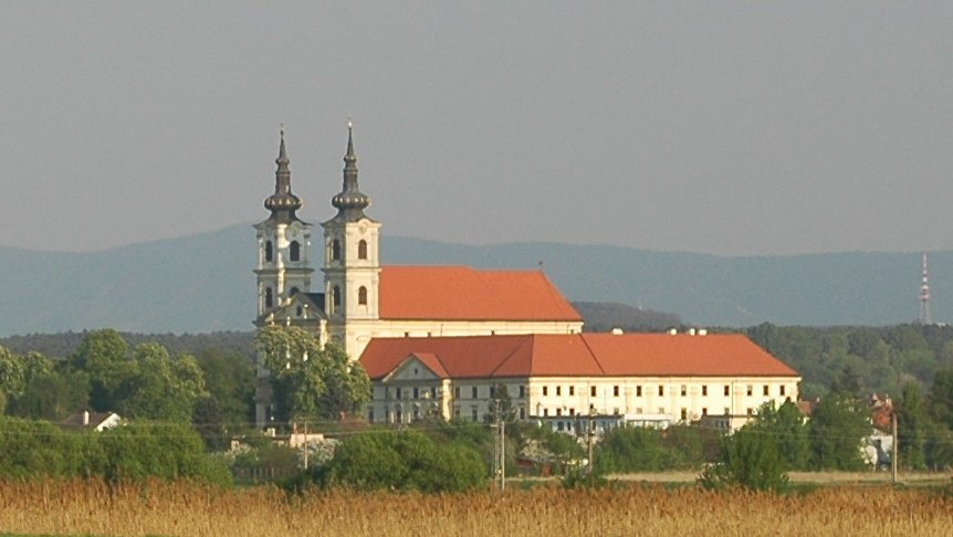 Šaštín-Stráže, basilica